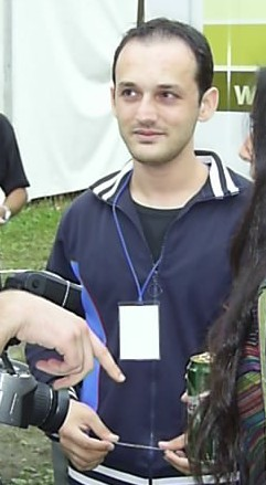 Özgür Can Öney (in the middle), drummer of Turkish rock band maNga at Sziget festival, Hungary, 13.08.2006.